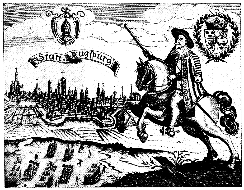 Gustav II Adolf taking Augsburg in 1632. Above are the coat of arms of Augusburg (left) and Sweden.